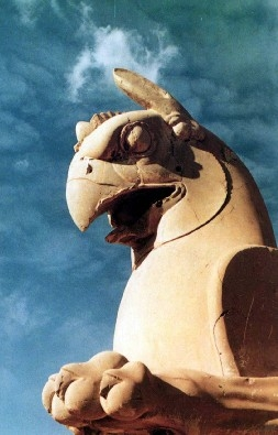 Homa in Persepolis